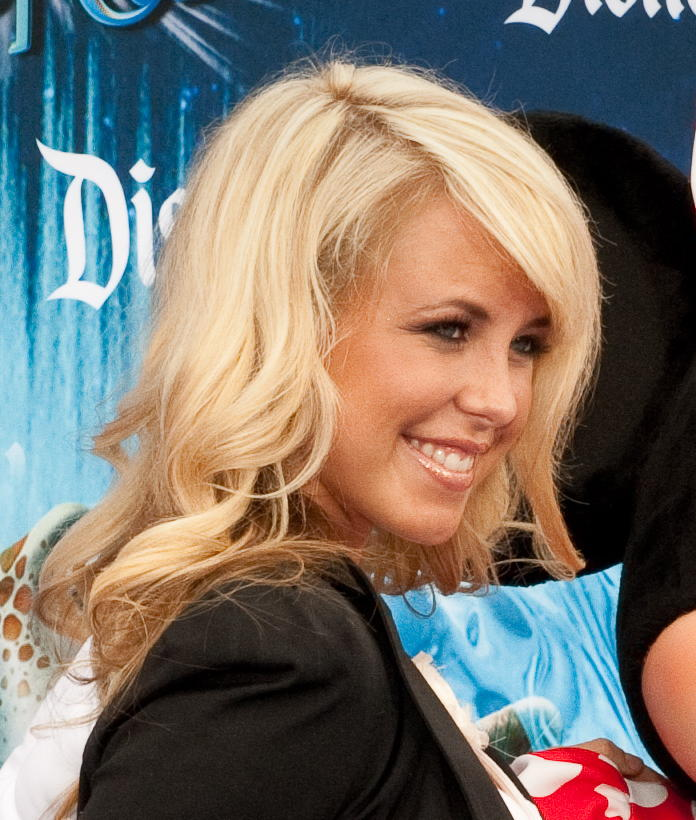 Chelsie Hightower- World of Color Premiere - Disney California Adventure Park